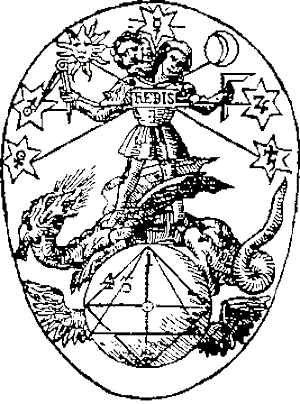 A diagramme from Michelspaher's "Cabala".